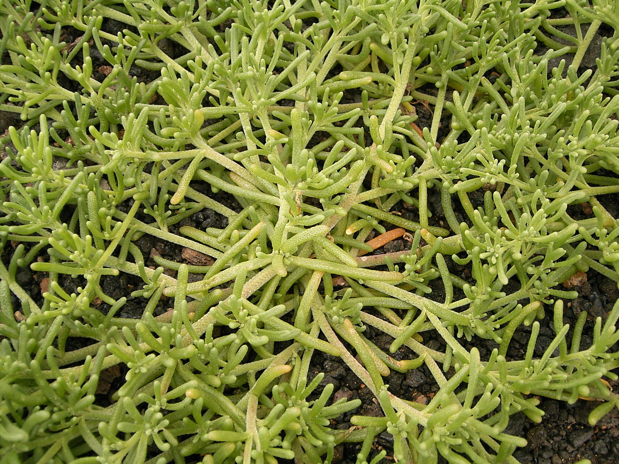 Mesembryanthemum nodiflorum growing in La Fajana, Barlovento, La Palma, Canary Islands